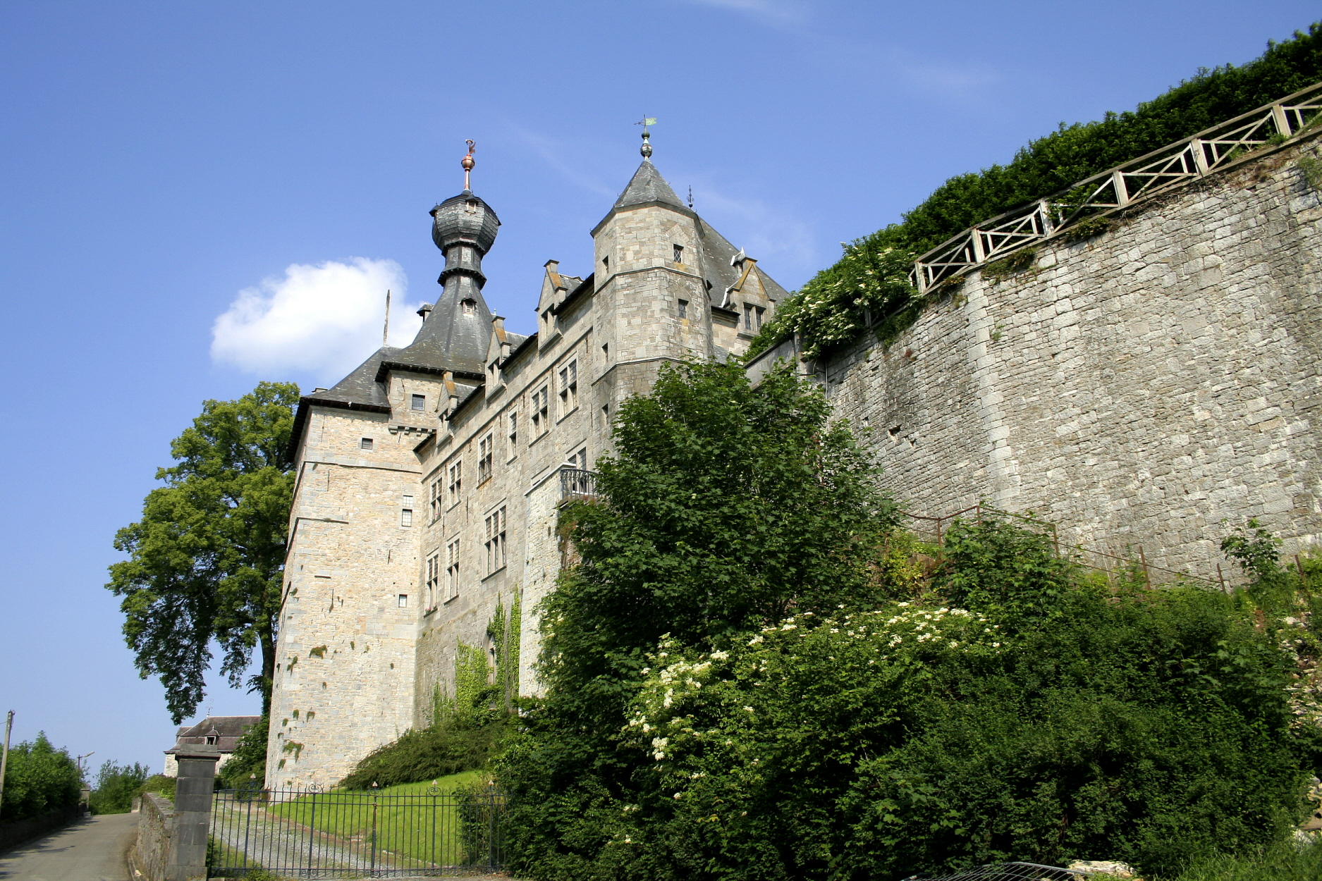 Chimay (Belgium), castle of the princes of Chimay (XIII/XIXth centuries).